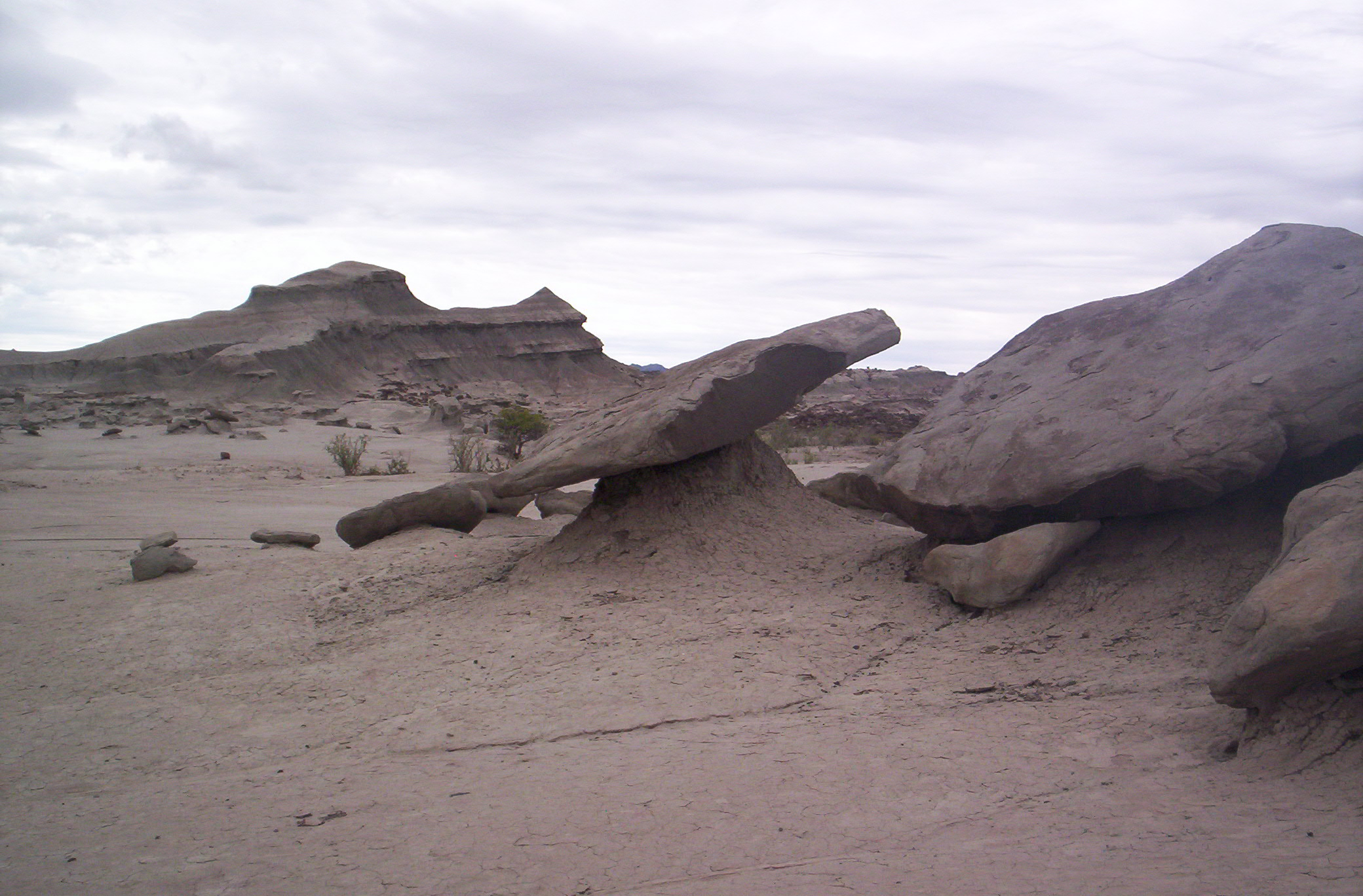 Having regard to small geoforms in Ischigualasto, formed from the various agents erosion. Located in northeast corner of the Argentine province of San Juan